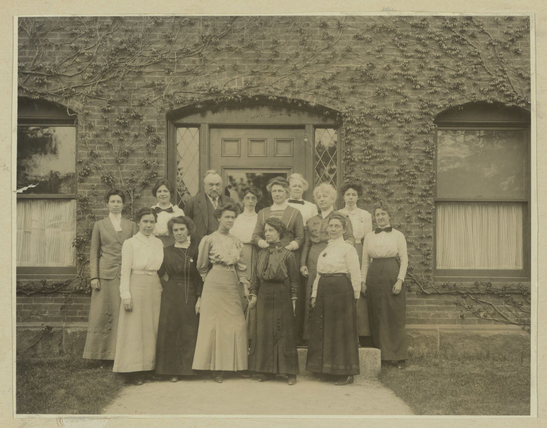 Photograph of the Harvard Computers (unflatteringly known as "Pickering's Harem"), a group of women who worked under Edward Charles Pickering at the Harvard College Observatory. The photograph was taken on 13 May 1913 in front of Building C, which was then the newest building at the Observatory. The image was discovered in an album which had once belonged to Annie Jump Cannon. Image courtesy of the Harvard-Smithsonian Center for Astrophysics. Back row (L to R): Margaret Harwood (far left), Mollie O'Reilly, Edward C. Pickering, Edith Gill, Annie Jump Cannon, Evelyn Leland (behind Cannon), Florence Cushman, Marion Whyte (behind Cushman), Grace Brooks.Front row: Arville Walker, unknown (possibly Johanna Mackie), Alta Carpenter, Mabel Gill, Ida Woods.